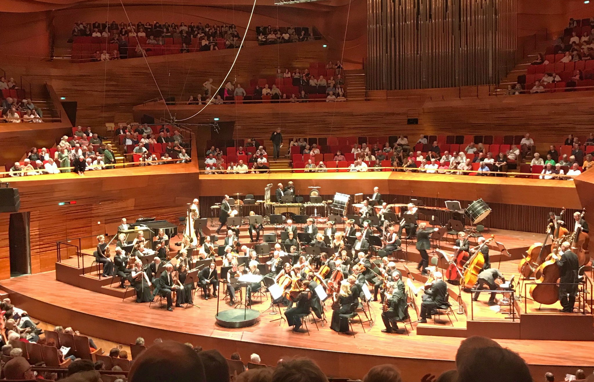 Danish National Symphony Orchestra at the Copenhagen Concert Hall, 2019.